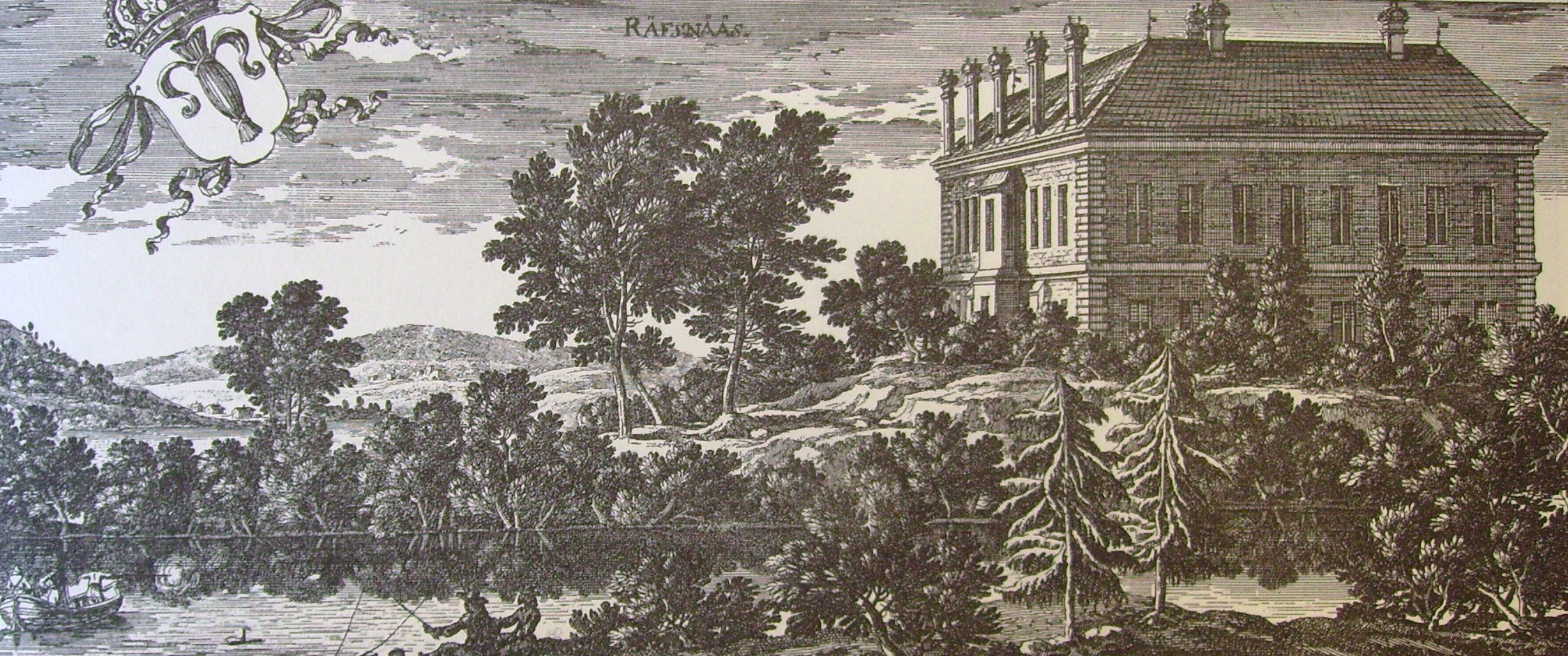 Picture of Räfsnäs in Södermanland